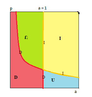 What hazard function distributions you can get using the generalized gamma